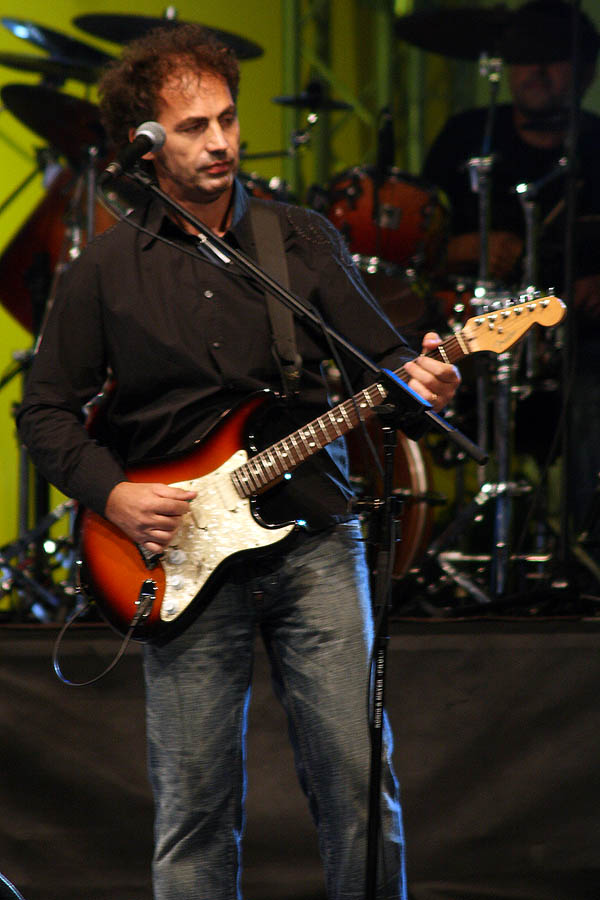 Marijan Brkić performing live with Gibonni at Špancirfest, September 2nd 2007 in Varaždin, Croatia (Hrvatska)